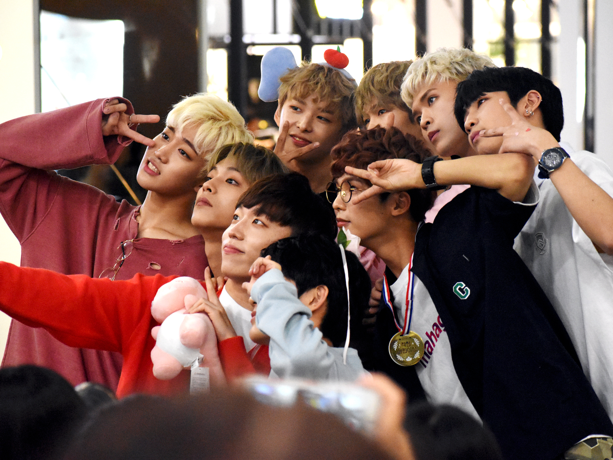 D-Crunch at a fansign event at the Gimpo International Airport branch Lotte Mall on August 18, 2018.